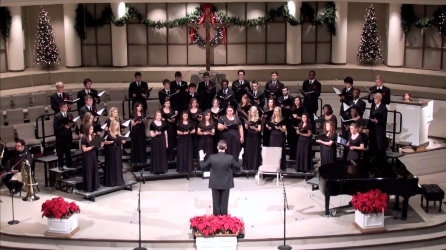 This is a photo of the University of Arkansas Schola Cantorum choir singing at a concert in December 2012.